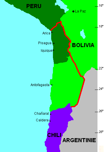 This map has been uploaded by Electionworld from to enable the Wikimedia Atlas of the World . Original uploader to was NL-Ninane, known as NL-Ninane at . Electionworld is not the creator of this map. Licensing information is below. Northern borders of Chile in 1879 (border in 2006: red line). Image made by User:NL-Ninane (see Gebruiker:Ninane) This map is erroneus, use Image:Borders-Bolivia-Chile-Peru-Before and after Pacfic War of 1879 SP.png